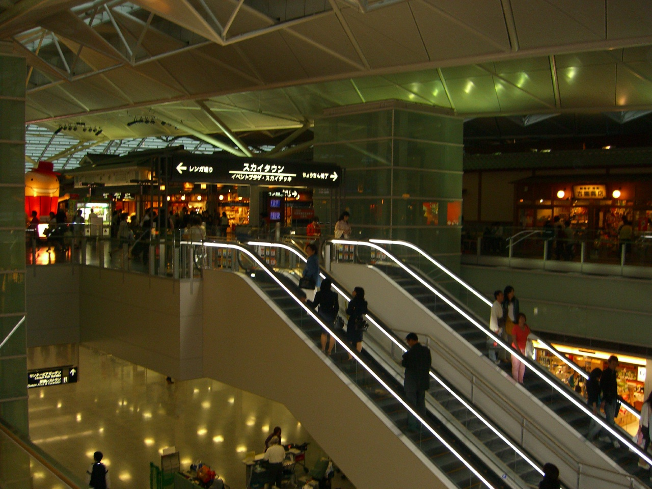 Centrair (Nagoya Airport) "4th Floor Sky Town" entrance. This picture was taken by Endroit on May 7, 2006.Endroit